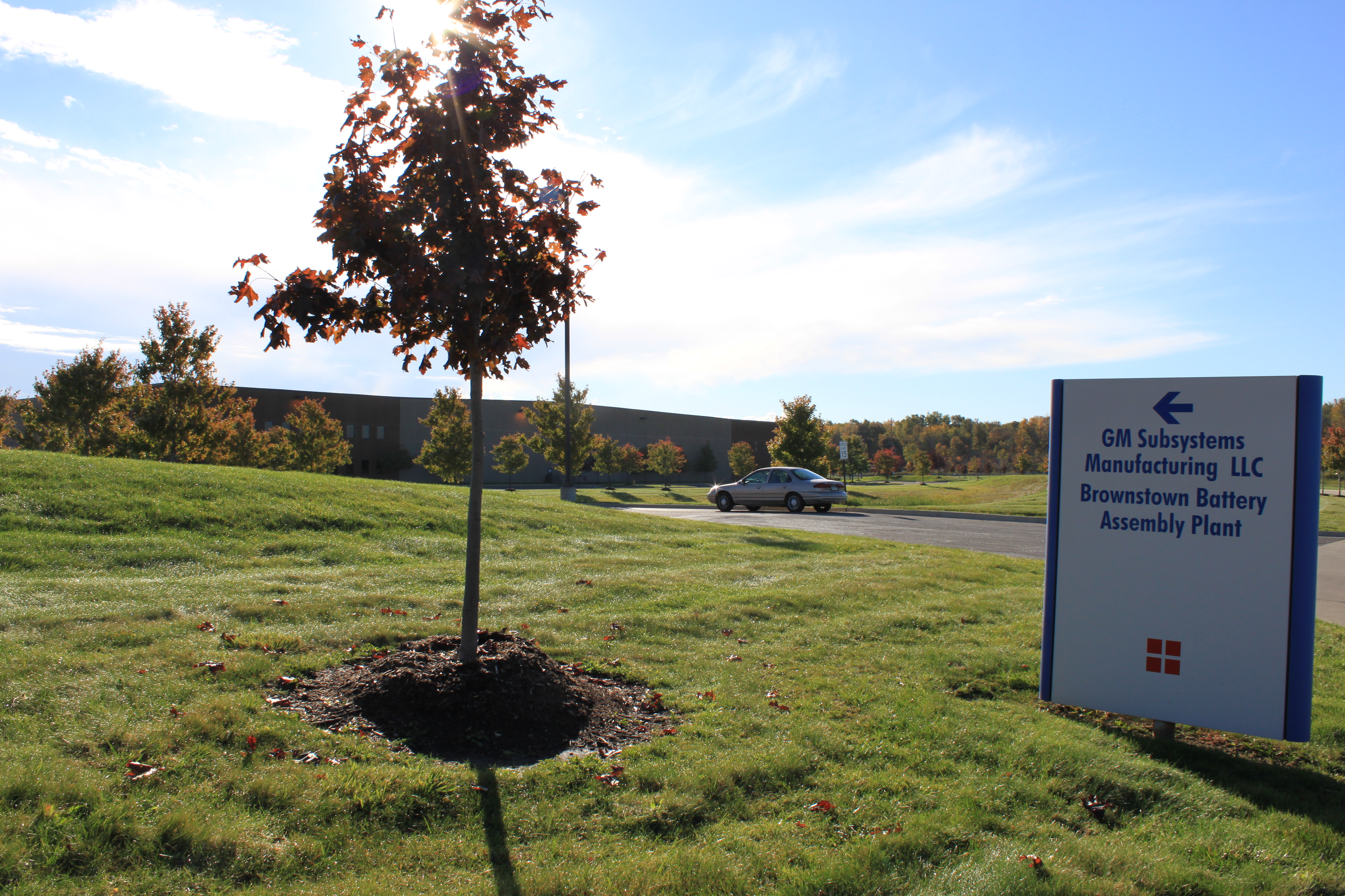 Brownstown Battery Assembly Plant, 20001 Brownstown Center Road, Brownstown Township, Michigan